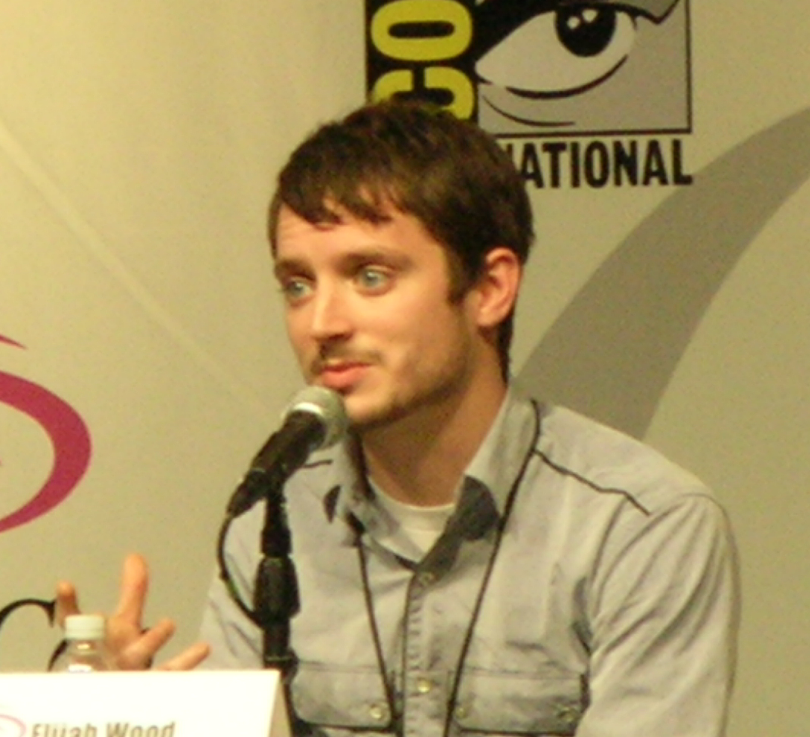 Elijah Wood, the voice of the title character, 9, talks about the 2009 film at a panel discussion at WonderCon 2009.